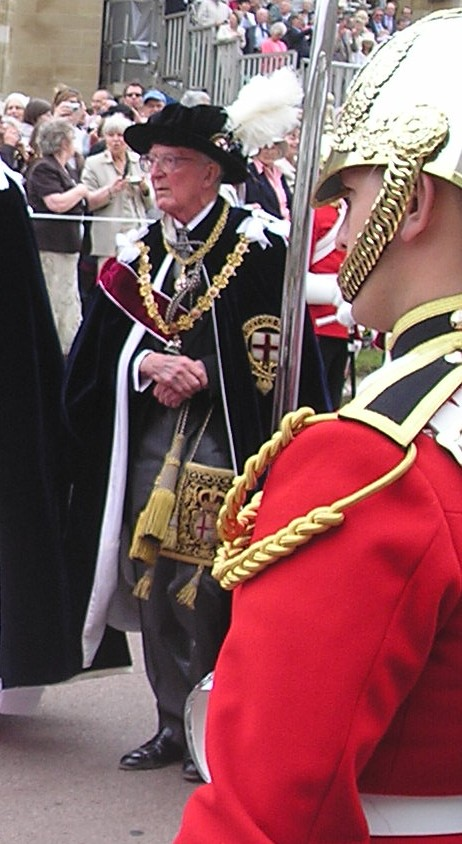 Lord Carrington wearing his robes as a Knight Companion of the Order of the Garter, in procession to St George's Chapel, Windsor Castle for the annual service of the Order of the Garter. As Chancellor of the Order he also wears an additional badge on a chain around his neck and carries an embroidered purse containing the seal of the Order. In the foreground is a dismounted member of the Life Guards.